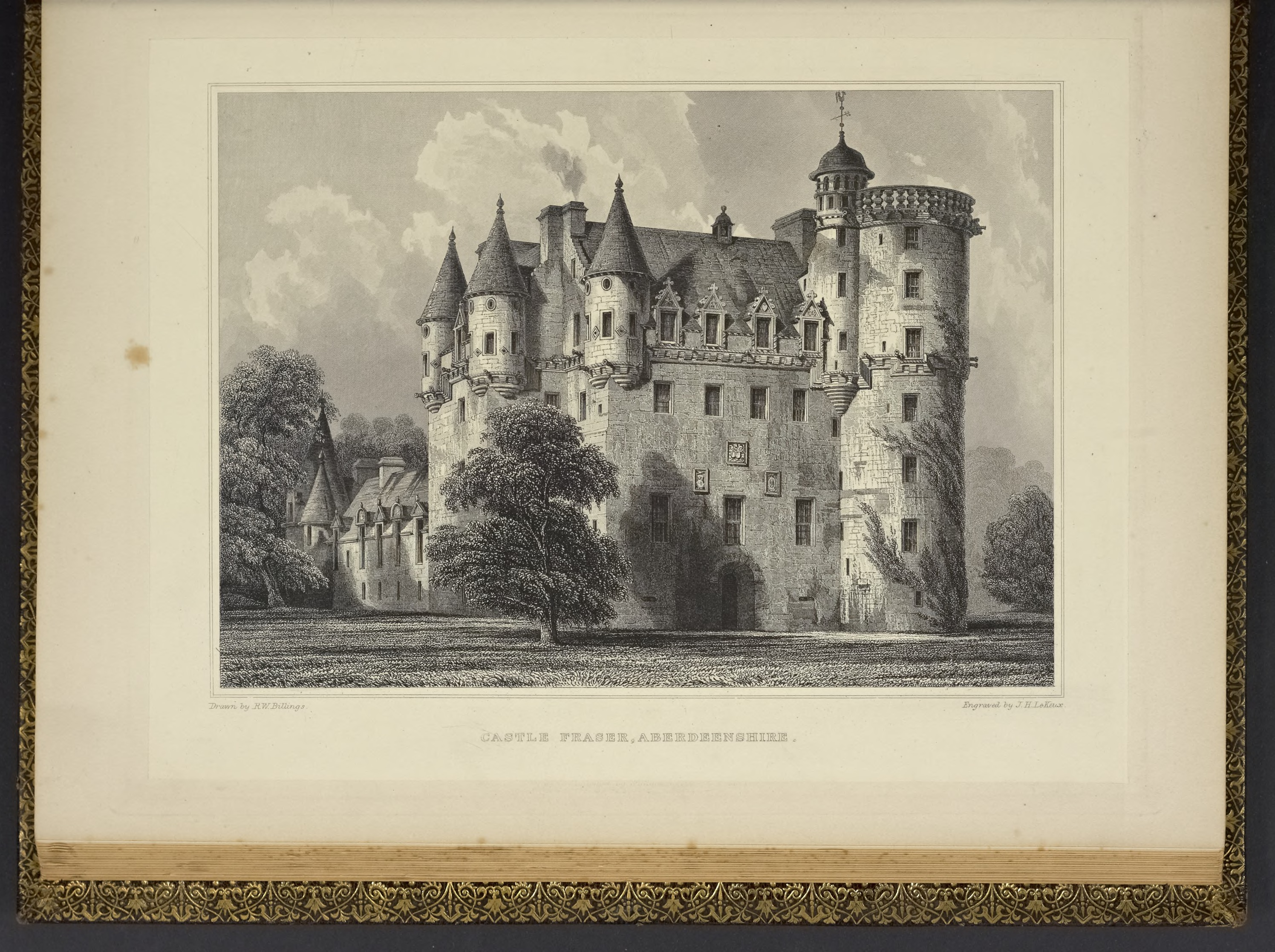 Title: The baronial and ecclesiastical antiquities of Scotland Year: 1852 (1850s) Authors: Billings, Robert William, 1813-1874 Subjects: Church architecture Architecture Castles Publisher: London, Published by the author Text Appearing Before Image: ' Text Appearing After Image: '